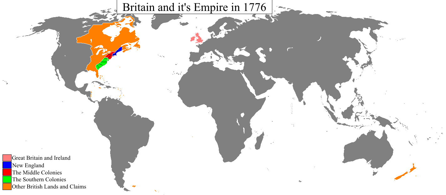 An edited map with Britain and it's colonies in 1776